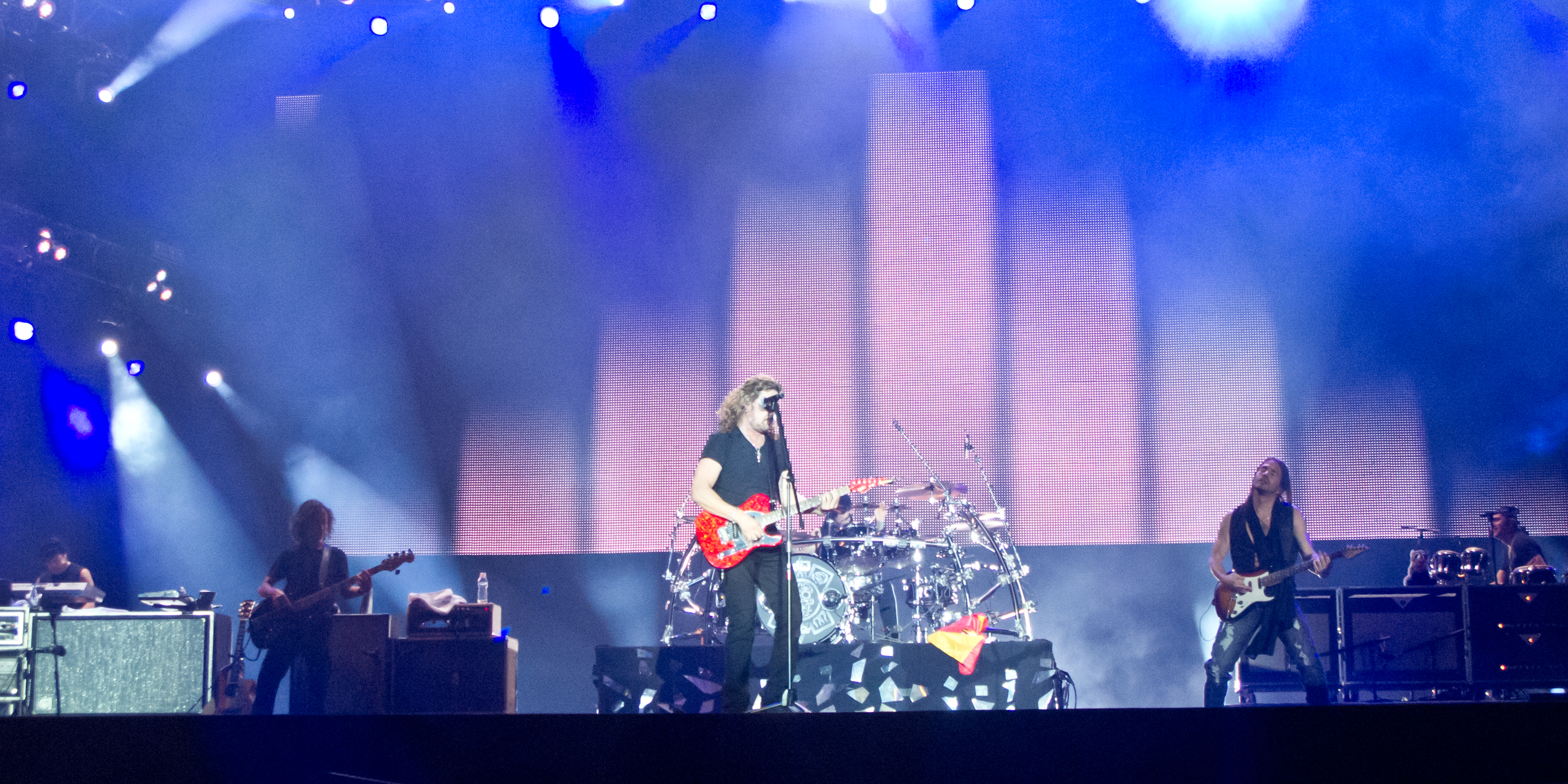 Maná in concert in Rock in Rio in Madrid in 2012.